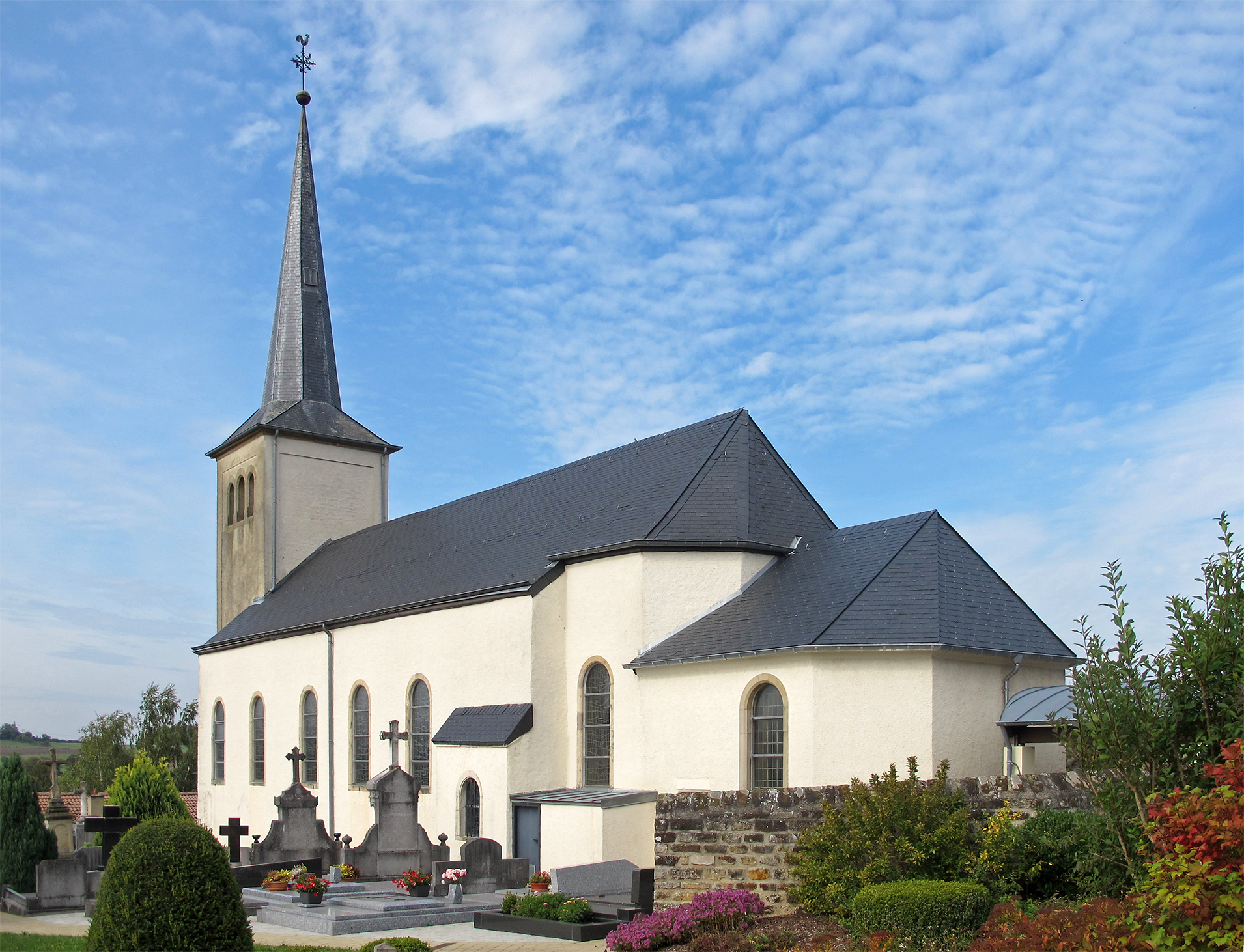 Church of Buschdorf, Luxembourg